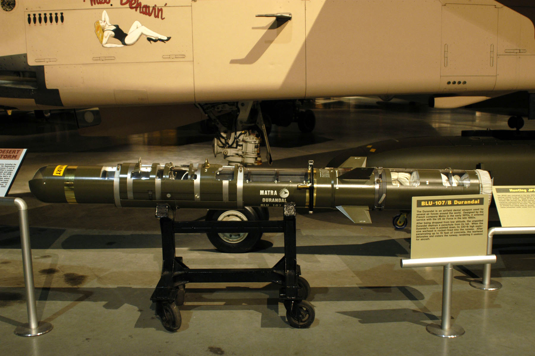 DAYTON, Ohio - The BLU-107/B Durandal on display in the Cold War Gallery at the National Museum of the U.S. Air Force. (U.S. Air Force photo). Text shown: The Durandal is an airfield denial weapon used by several air forces around the world. Designed by the French company Matra in the early 1970s, it entered service with the U.S. Air Force in the late 1980s. After being dropped from low altitude, the unguided Durandal deploys a parachute from its tail. When the Durandal's nose is pointed down, its 330-pound high explosive warhead is rocket-fired into the runway. After penetrating up to 15 feet of concrete, the warhead detonates and craters the runway, rendering it useless for aircraft.